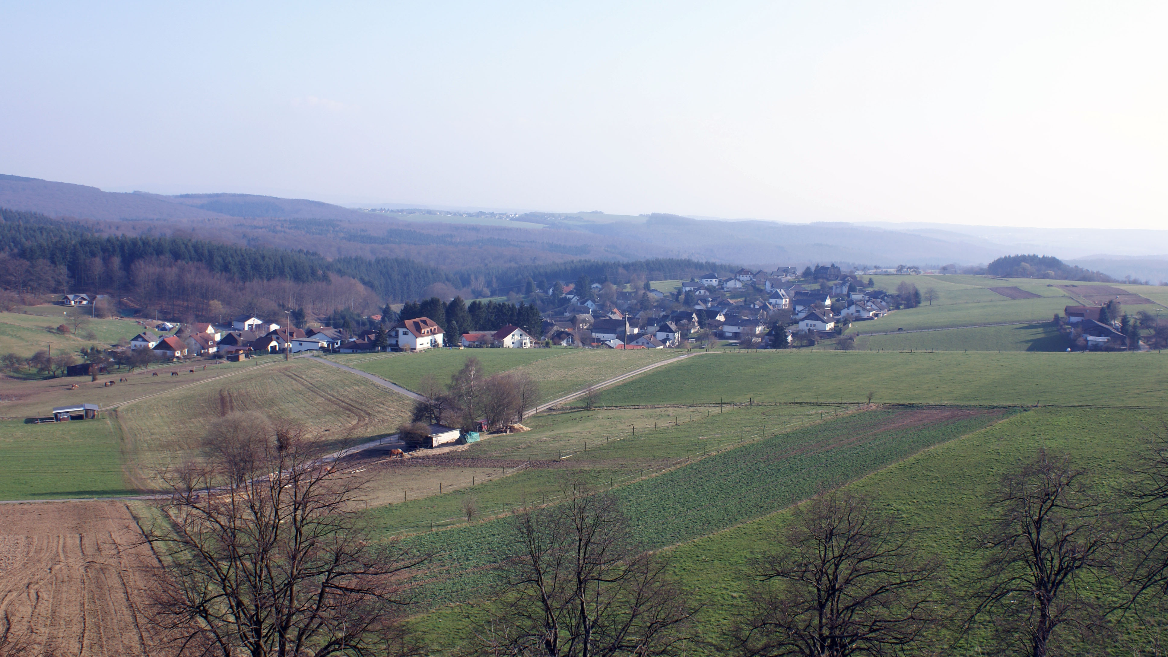 View over Oberraden